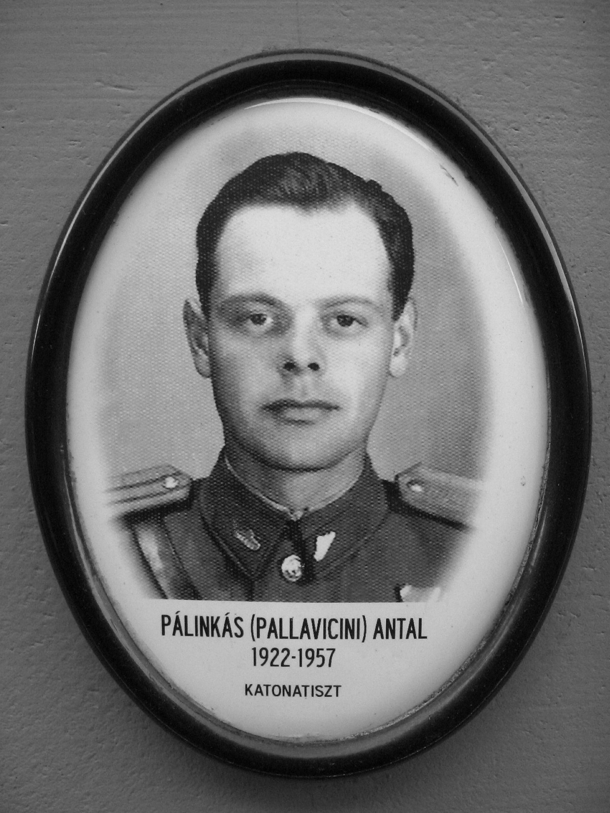 Antal Palinkas, born Count Pallavicini , 1922-1957, Major in the Hungarian People's Army, executed for revolutionary activity in 1956